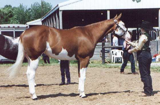 This mare is an APHA registered mare, and was given to me with permission by the owner for use in explaining Splash Overo genetics, and was originally found on my website on this page